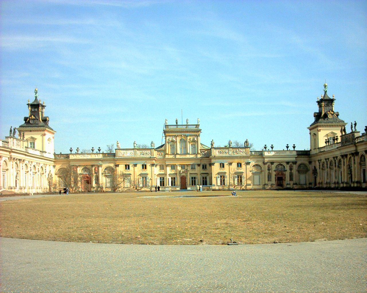 The Wilanów palace in Warsaw, Poland.